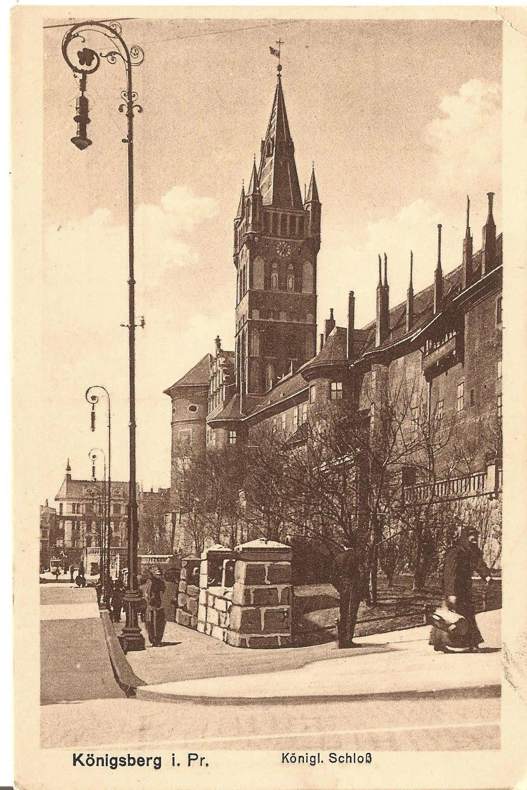 Königsberger Schloss